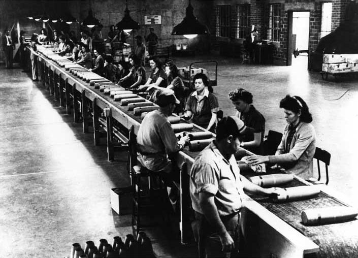 Employees working in Redstone Ordnance Plant (Redstone Arsenal).